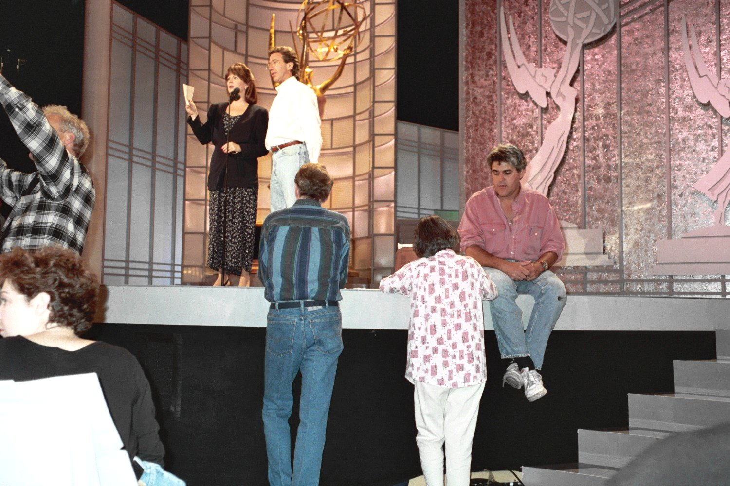 1993 Emmy Awards NOTE: Permission granted to copy, publish, broadcast or post any of my photos, but please credit "photo by Alan Light" if you can. Thanks. Scanned from the original 35MM film negative.